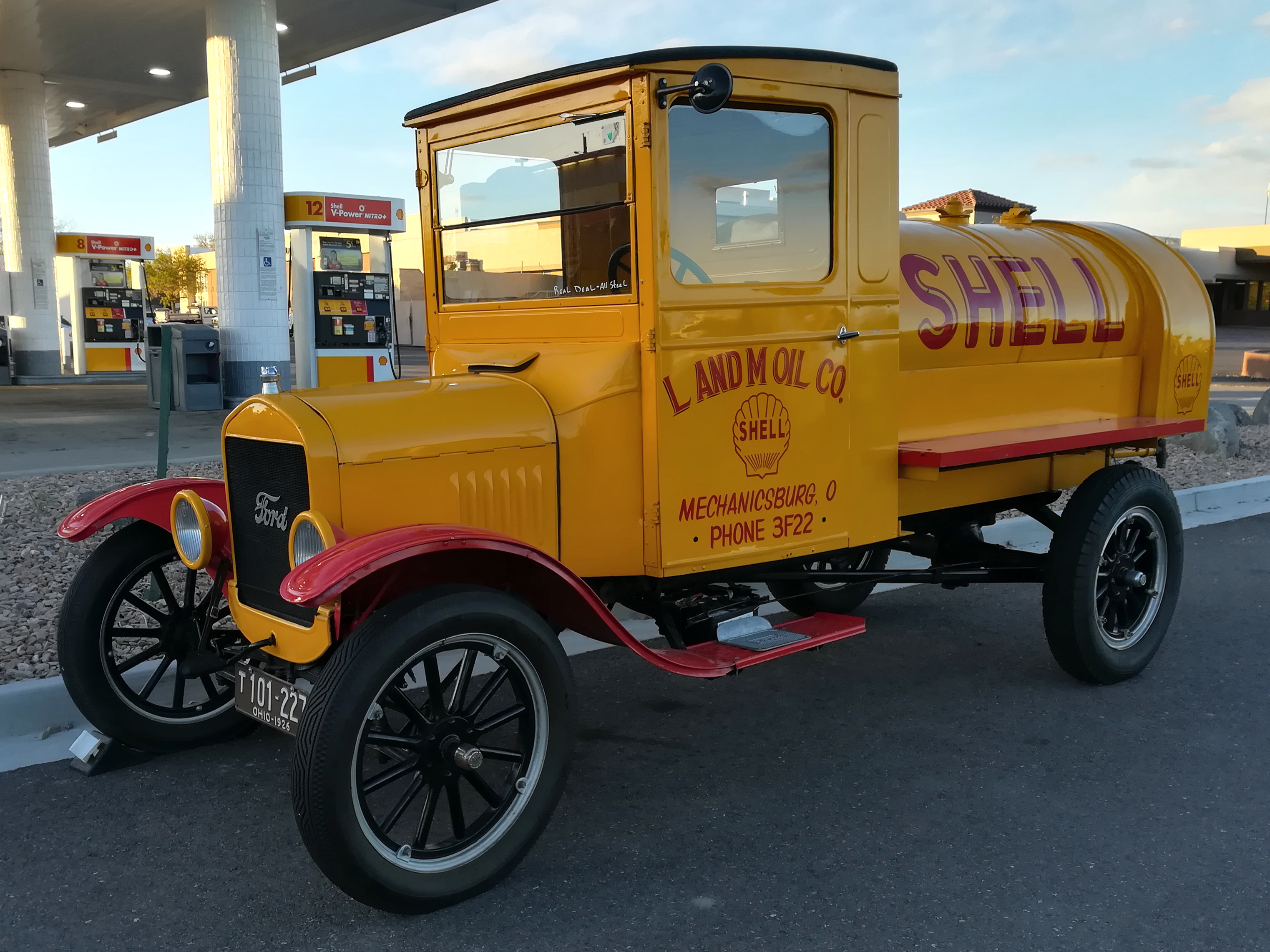 Shell Tank Truck from 1926 in Grand Junction (Colorado)